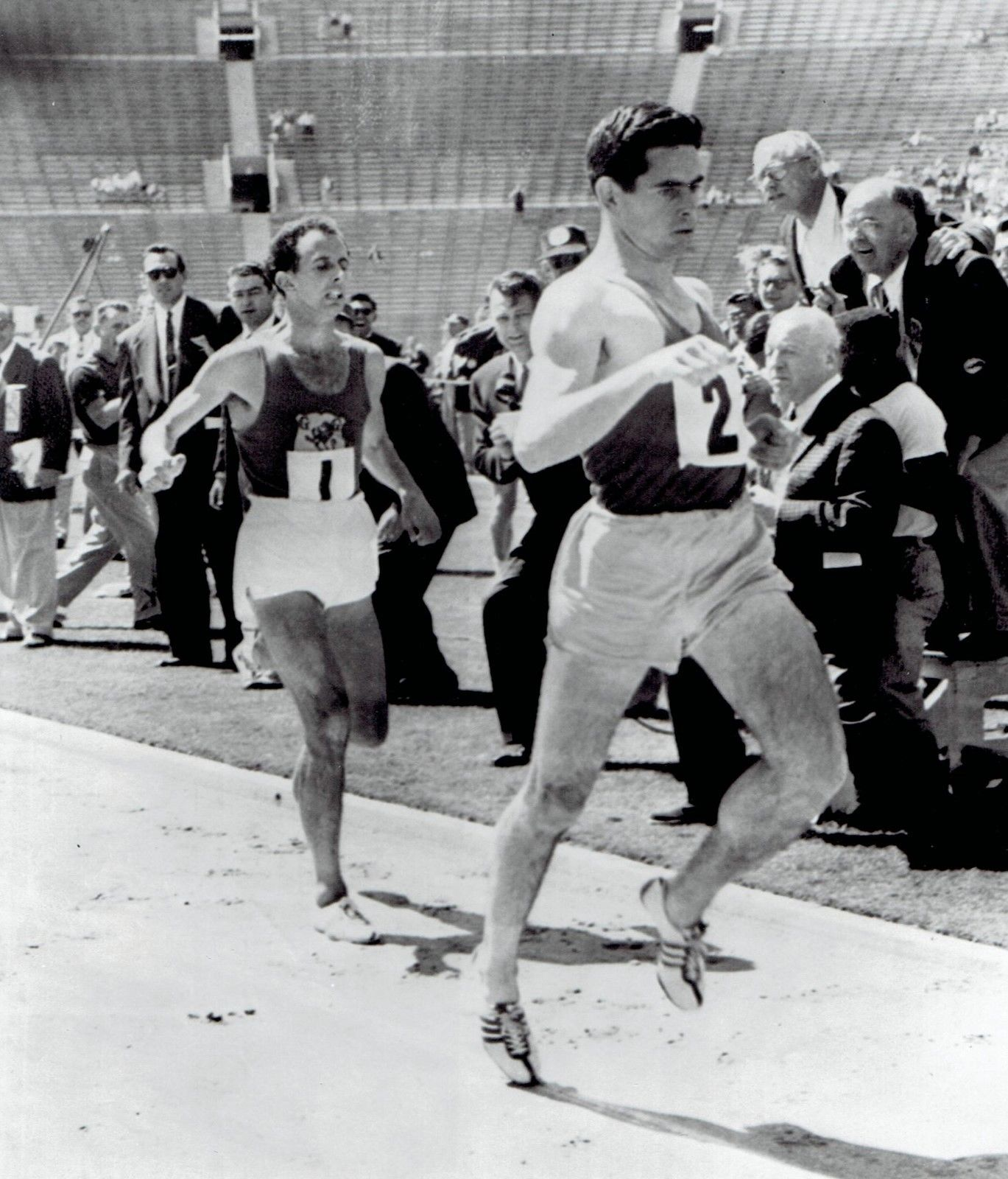 1956 Wire Photo Jim Bailey cross finish beating John Landy in mile track race